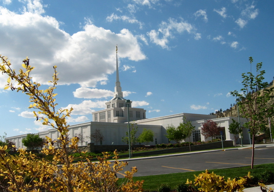 The Billings Montana Temple of The Church of Jesus Christ of Latter-day Saints, viewed from the parking lot.